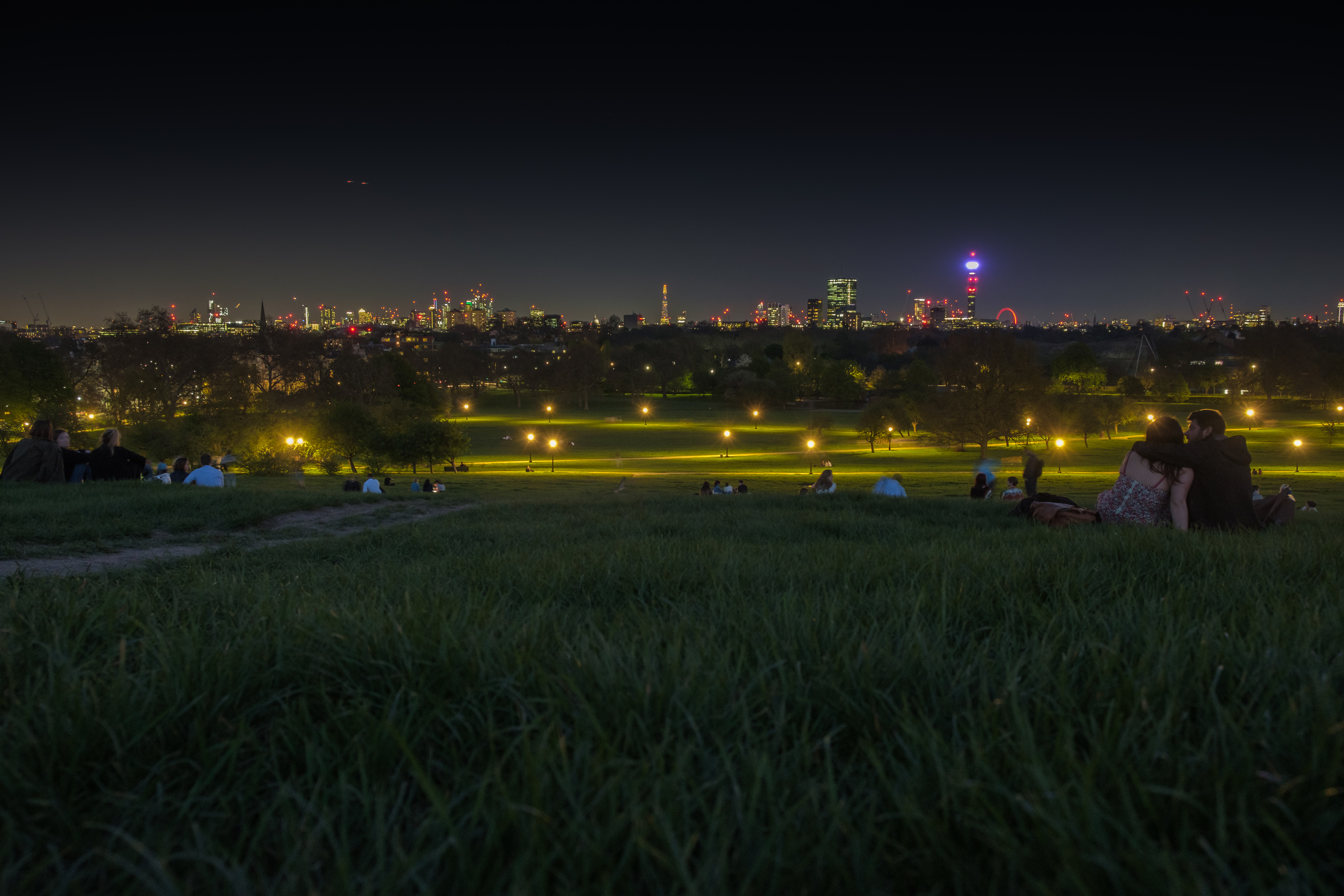 View of London Skyline from the summit of Primrose Hill.